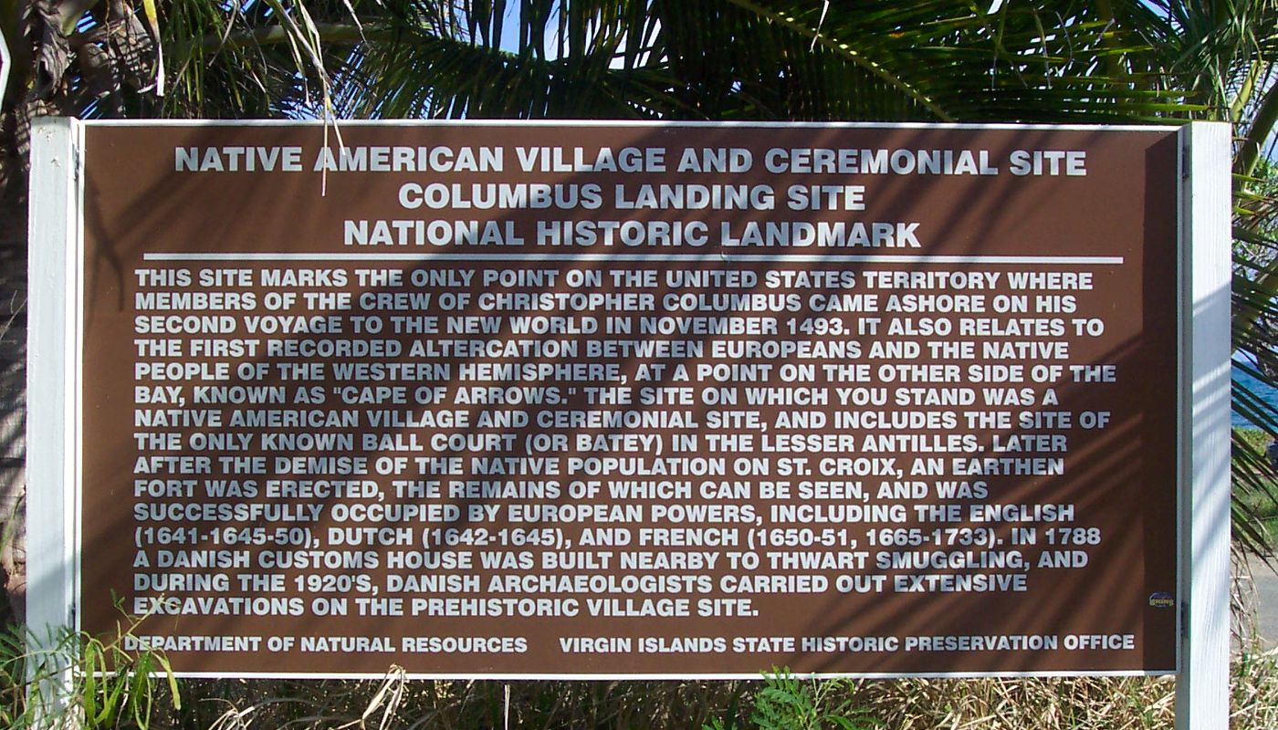 Historical marker/information sign at Salt River Bay National Historical Park and Ecological Preserve. 17°46′44″N 64°45′33″W / 17.77889°N 64.75917°W Transcription: Native American Village and Ceremonial Site / Columbus Landing Site / National Historic Landmark / This site marks the only point on the United States territory where members of the crew of Christopher Columbus came ashore on his second voyage to the New World in November 1493. It also relates to the first recorded altercation between Europeans and the native people of the Western Hemisphere, at a point on the other side of the bay, known as "Cape of Arrows." The site on which you stand was a Native American village and ceremonial site, and includes the site of the only known ball court (or batey) in the Lesser Antilles. Later after the demise of the native population on St. Croix, an earthen fort was erected, the remains of which can be seen, and was successfully occupied by European powers, including the English (1641•1645-50), Dutch (1642-1645), and French (1650-51, 1665-1733). In 1788 a Danish customs house was built nearby to thwart smuggling, and during the 1920's, a Danish archaeologist carried out extensive excavations on the prehistoric village site. / Department of Natural Resources / Virgin Islands State Historic Preservation Office